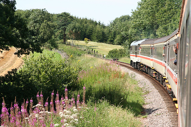 Lydeard St Lawrence: West Somerset Railway A Bristol-Minehead train, a summer special known as the 'Butlins Express', ascends the gradient towards the summit of the branch line which runs from Norton Fitzwarren at Crowcombe Heathfield